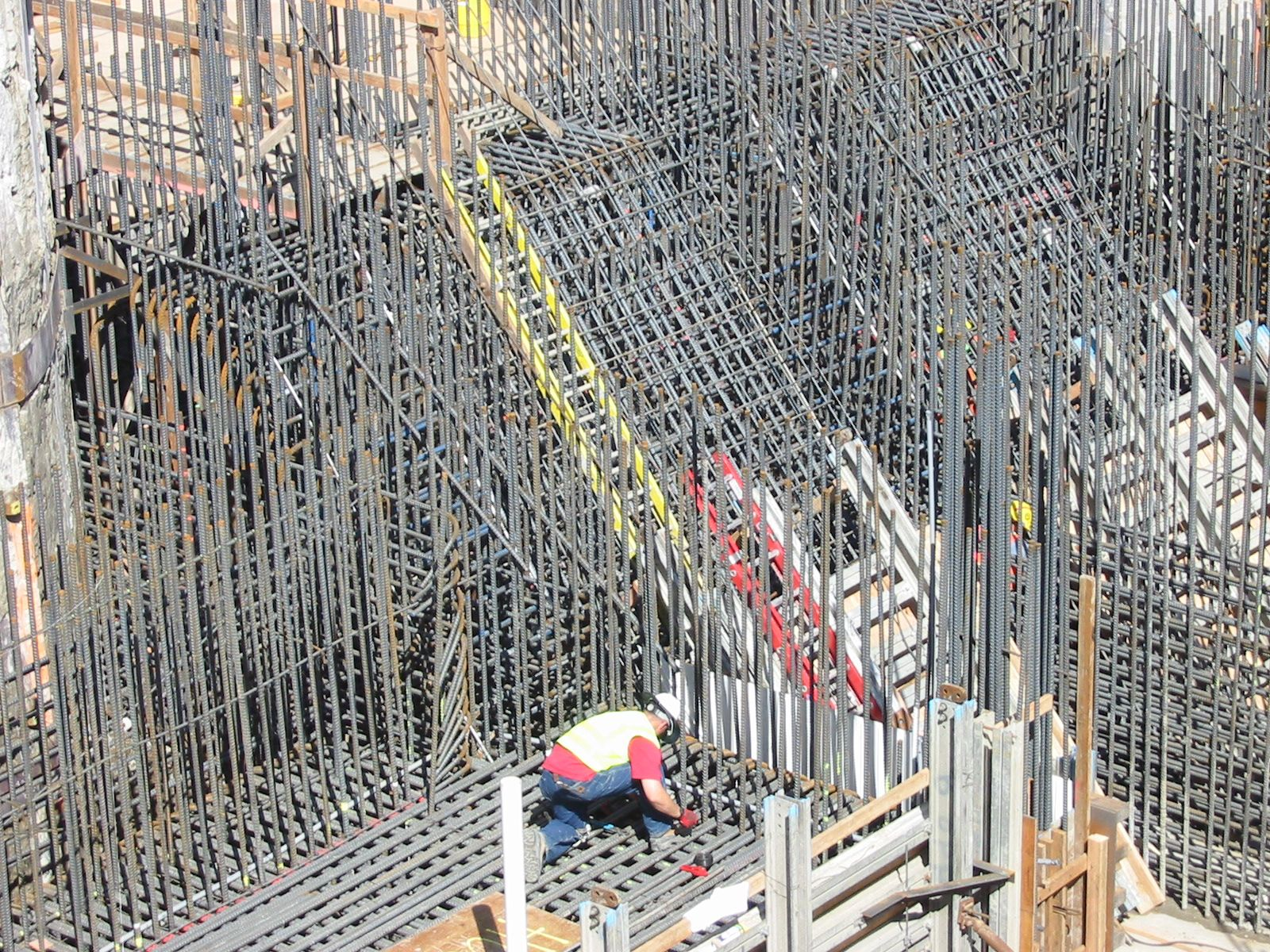 Closeup of rebar placement at South River Pump Station, West Sacramento, California.